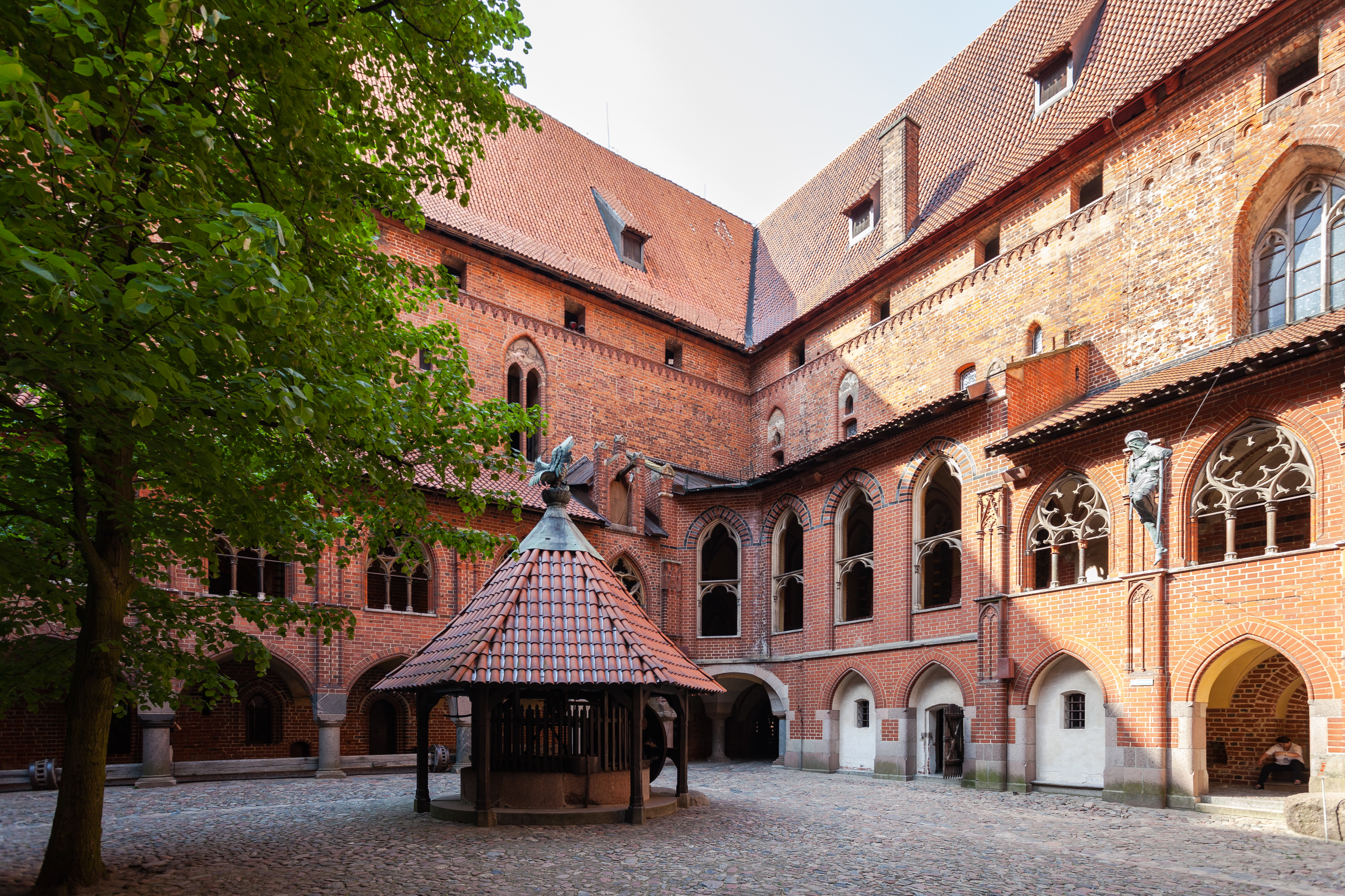 Malbork Castle, Poland